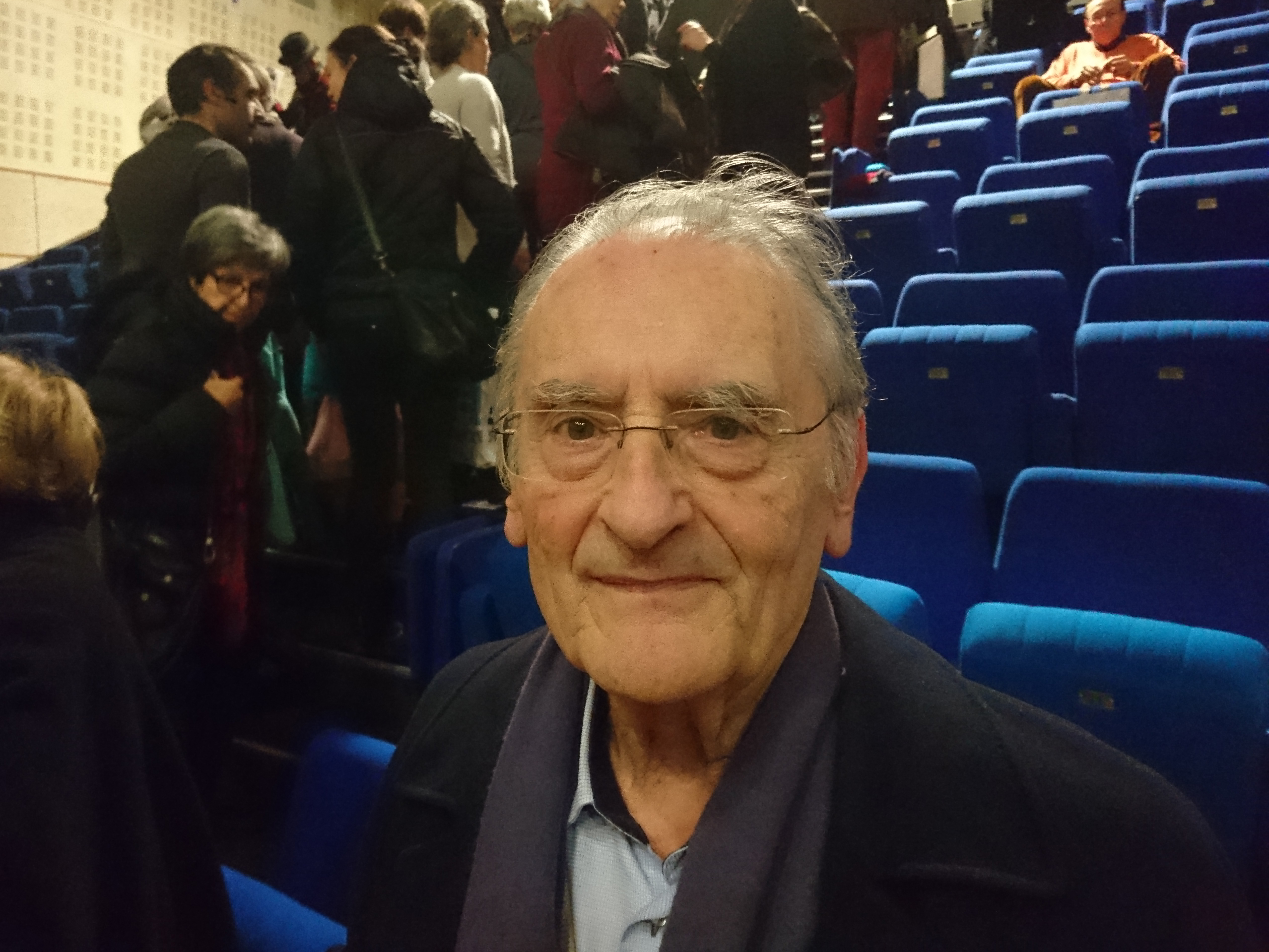 Portrait of french composer François-Bernard Mâche at the Présences festival, Maison de la Radio (France), on 10th February 2018